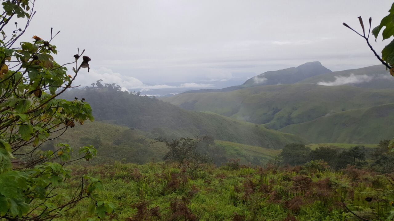 Breathtaking